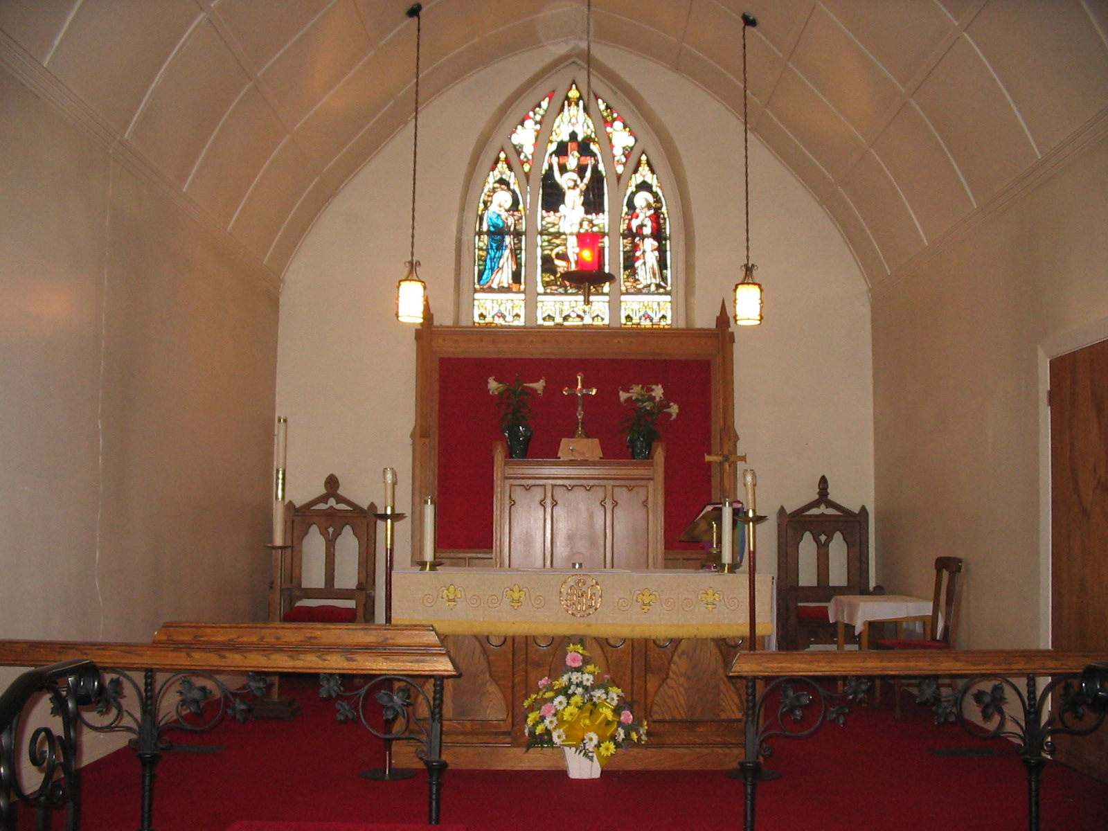 The altar at St. Stephen's Anglican Church, Buckingham, PQ